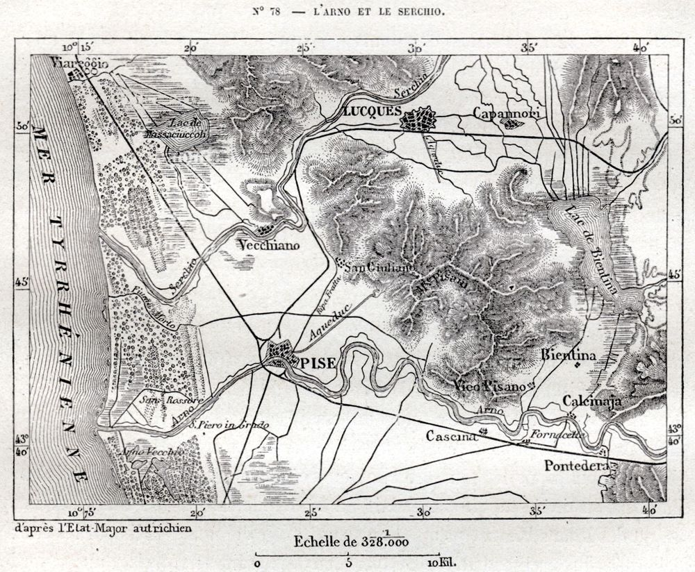 This is an Italian-Austrian map of the area of Tuscany in Italy around the Lago di Bientina in the mid-19th century.